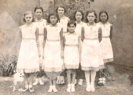 DGS class prefects– Class Prefects (1-6) Back Row (from left): Joyce Symons; Eileen Witchel; Alice Leung; Carmen ____ Front Row: Jean Latham; Molly Lau; Patricia Kotewall; Marie Spencer